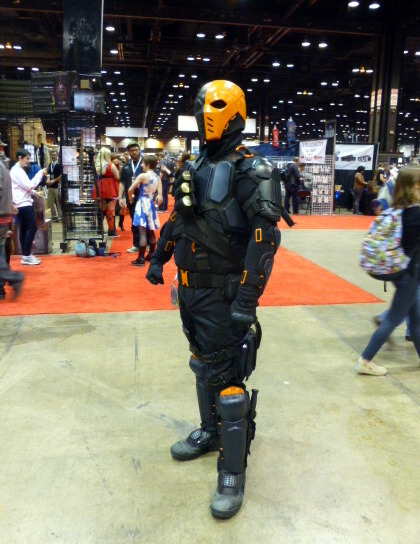 Deathstroke Cosplay at Chicago Comic & Entertainment Expo (C2E2) 2015.